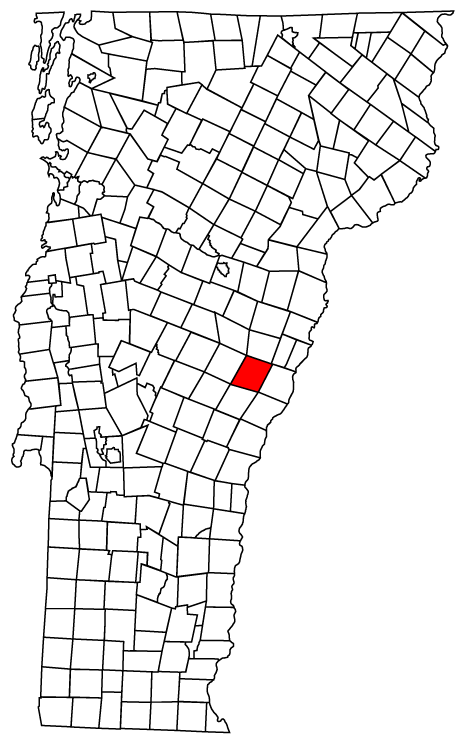 Description: Map of Vermont towns with Strafford highlighted Source: Map created by Jared C. Benedict on 26 March 2004. Copyright: © Jared C. Benedict.